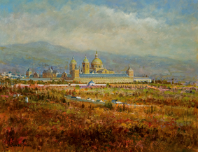 Cuadro al oleo de JOSE SUAREZ GOMEZ